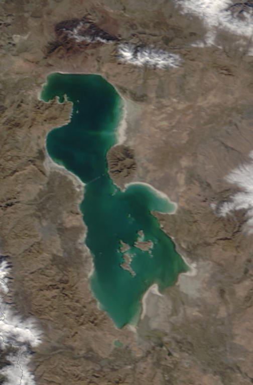 Lake Urmia, Iran in 2003